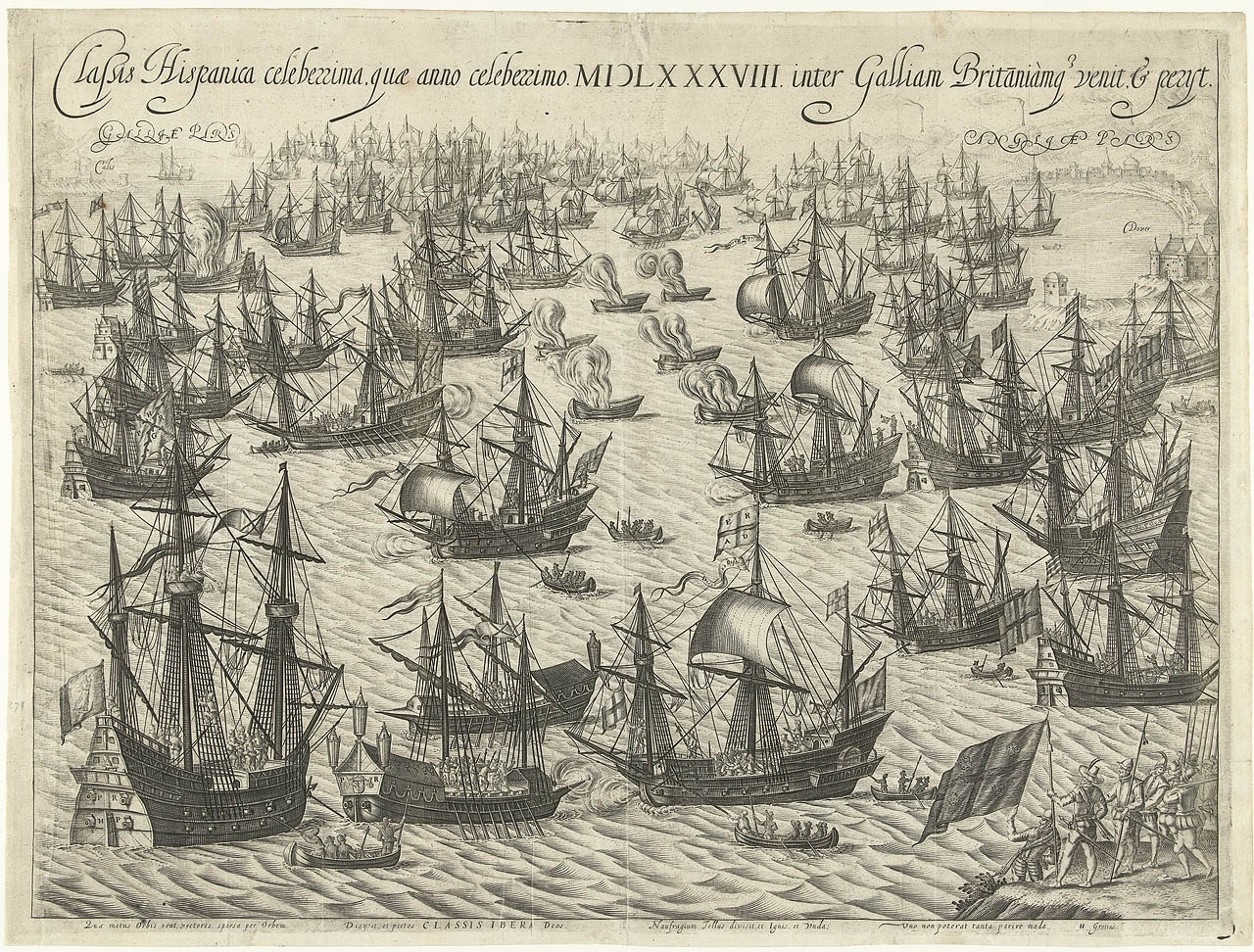 The demise of the Spanish Armada in 1588.